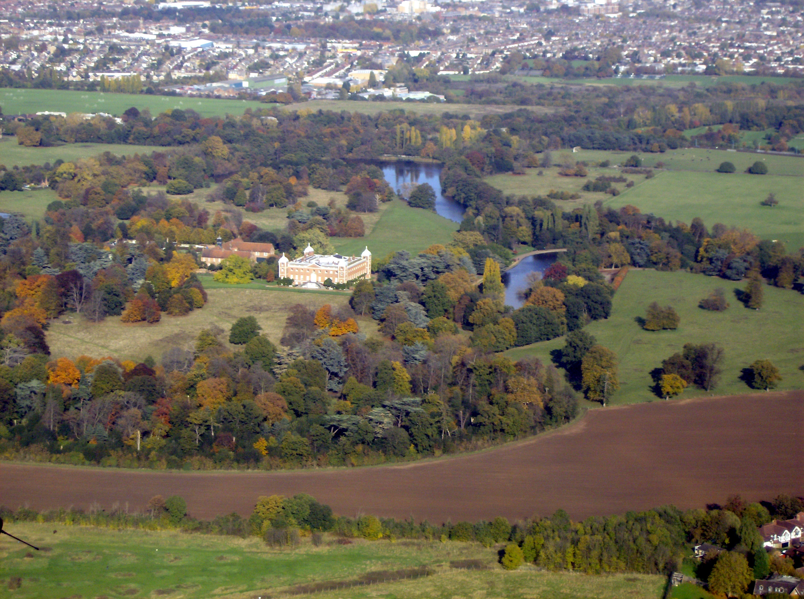 Aerial view of Osterley Park, London